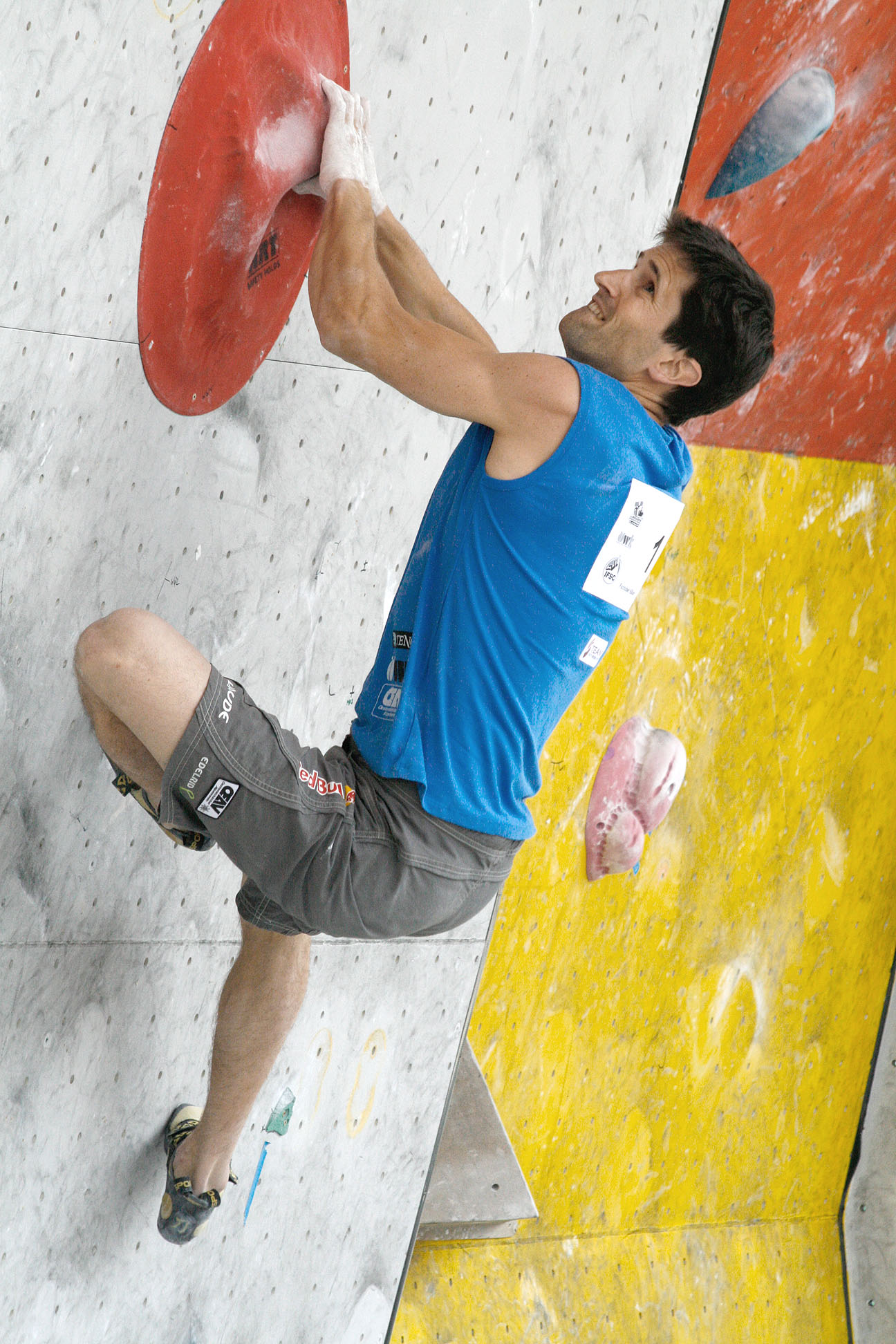 Kilian Fischhuber during the semi-finals at the IFSC Boulder Worldcup Vienna 2010.